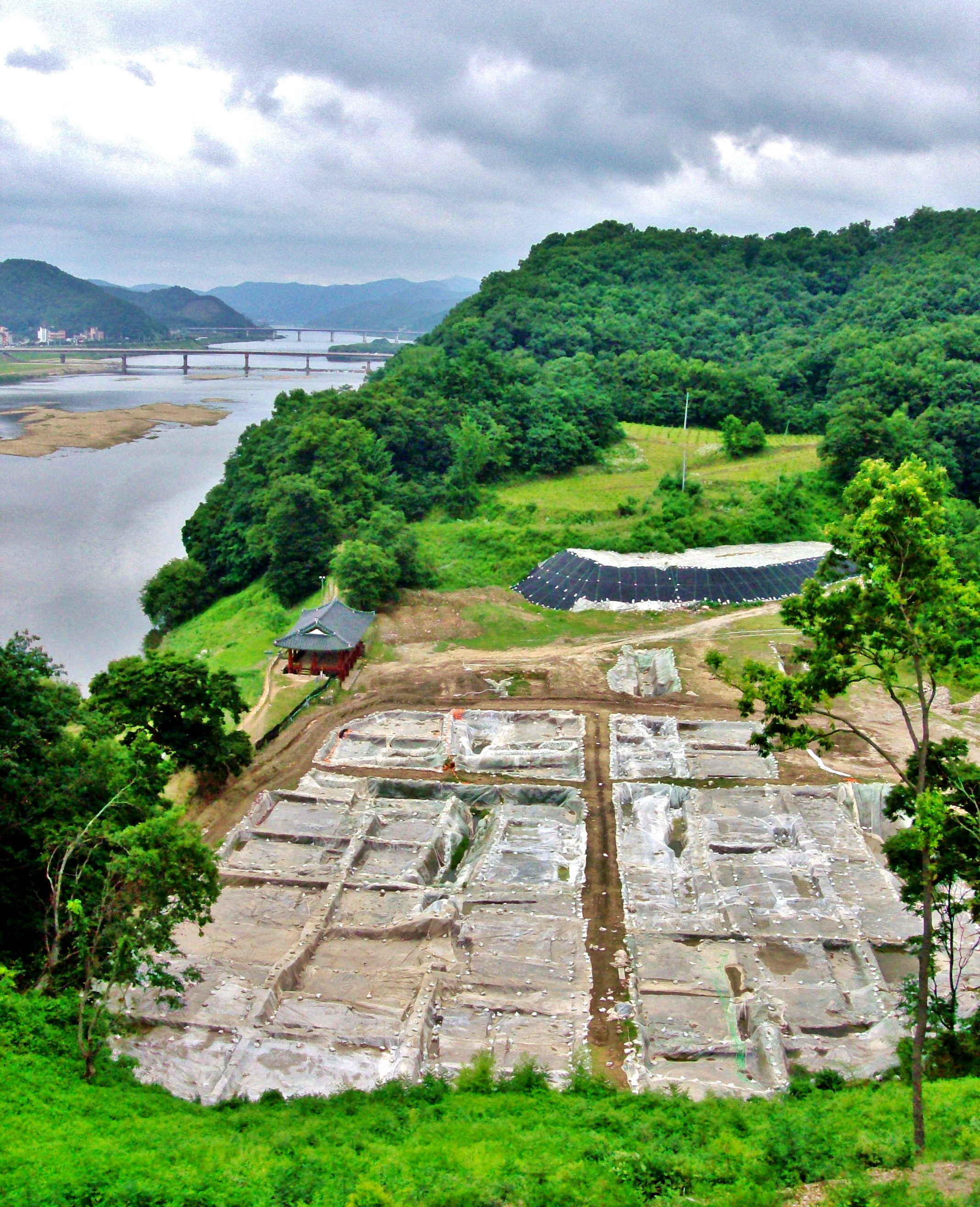 Gongsanseong Fortress - Archaeological site of Seonganmaeul